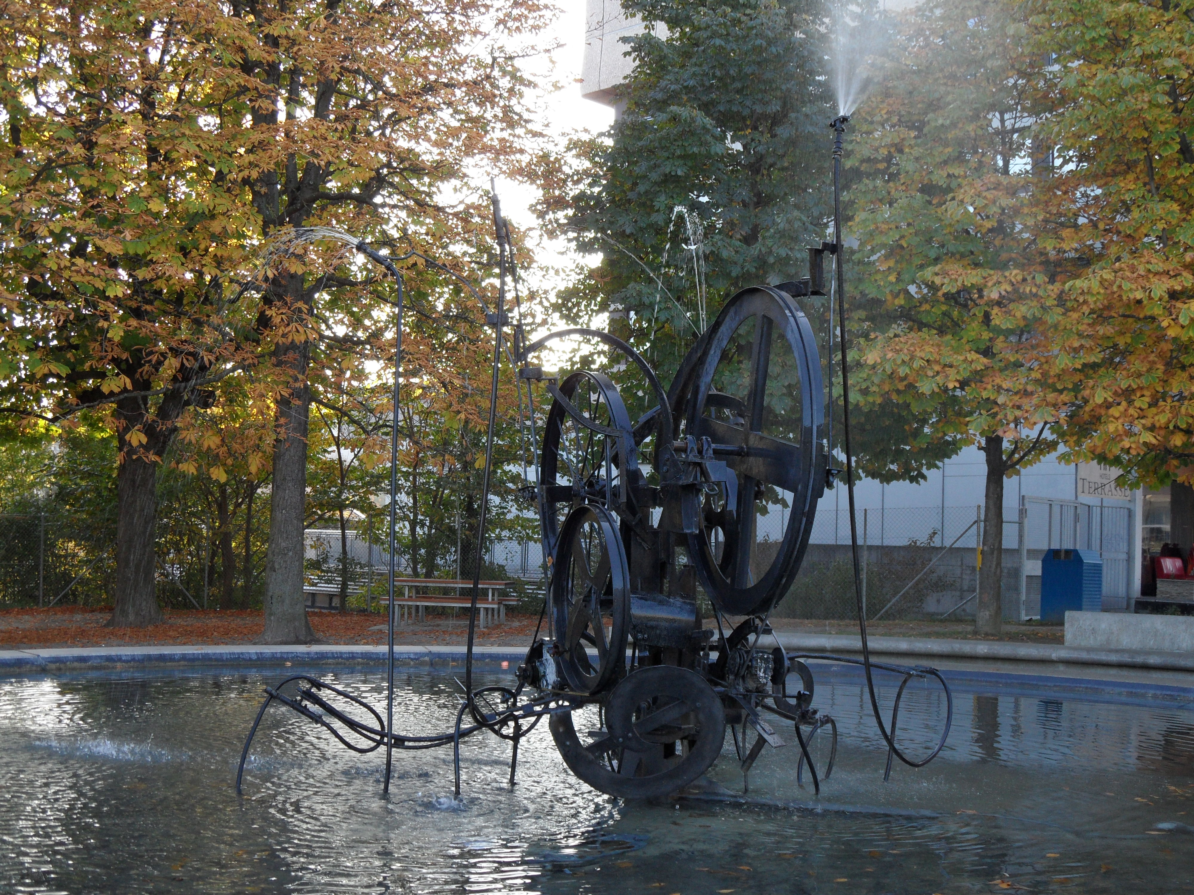 Jean Tinguely Fountain in the Parc des Grands Places, Fribourg, Switzerland.